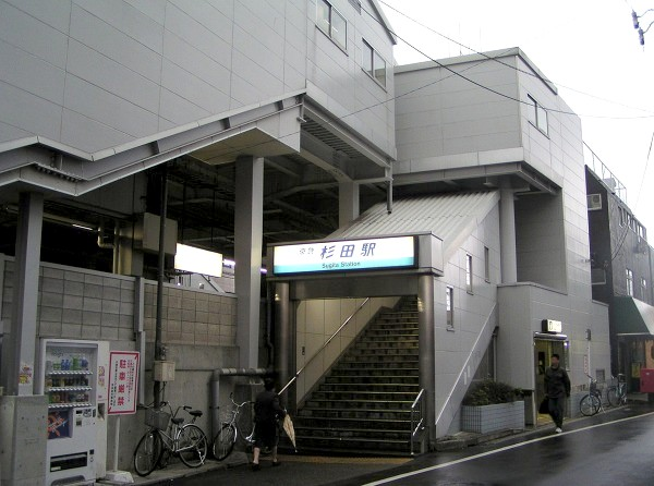 Sugita station west entrance